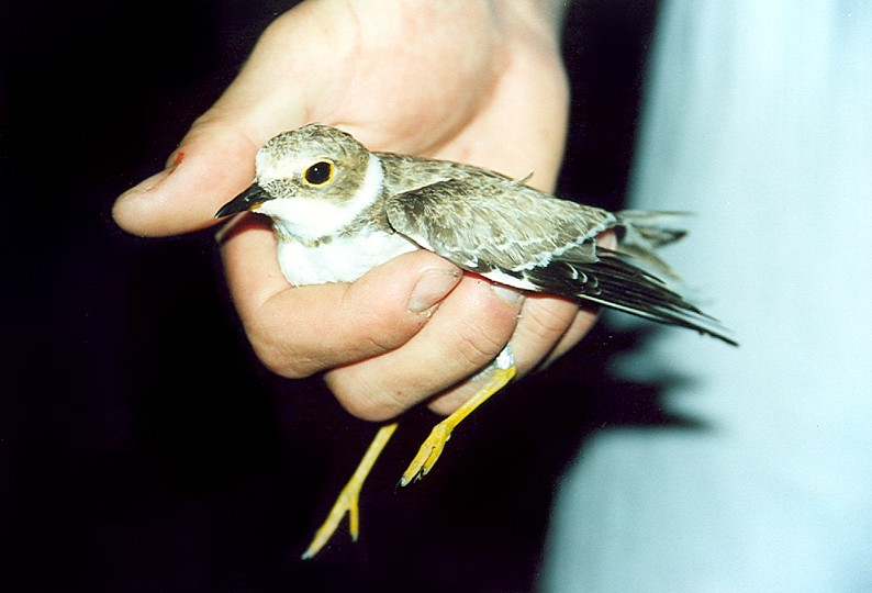 A little ringed plover Charadrius dubius in Bulgaria.